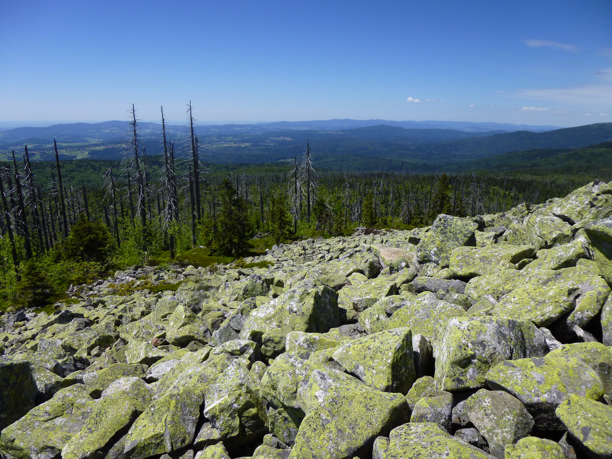 View from top of Lusen in Bavarian Forest National Park, Neuschönau, Bavaria, Germany; in the foreground parts of the granite stone run on the mountain's summit